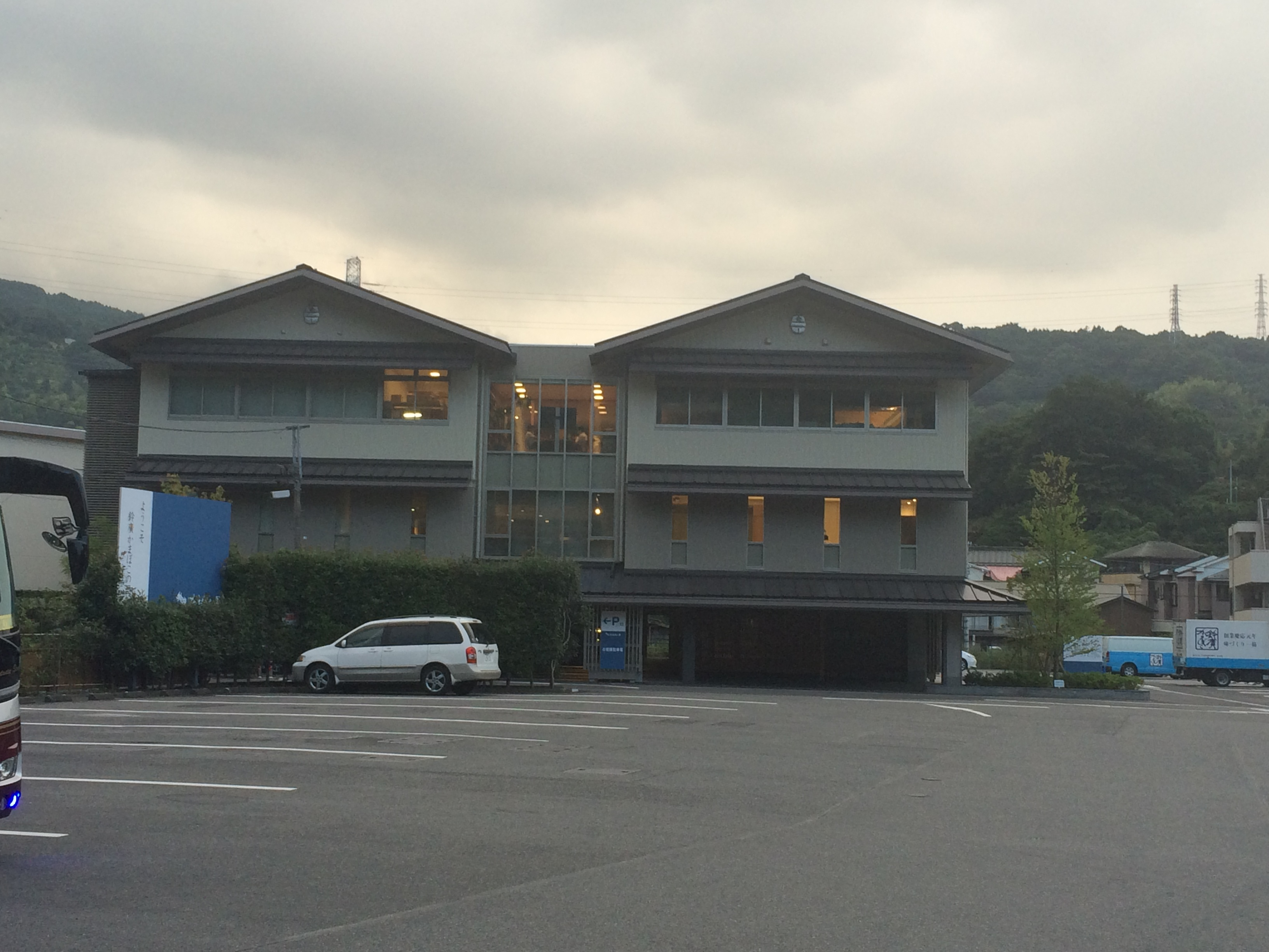 Suzuhiro Office Building in Kazamatsuri, Odawara, Kanagawa Prefecture, Japan